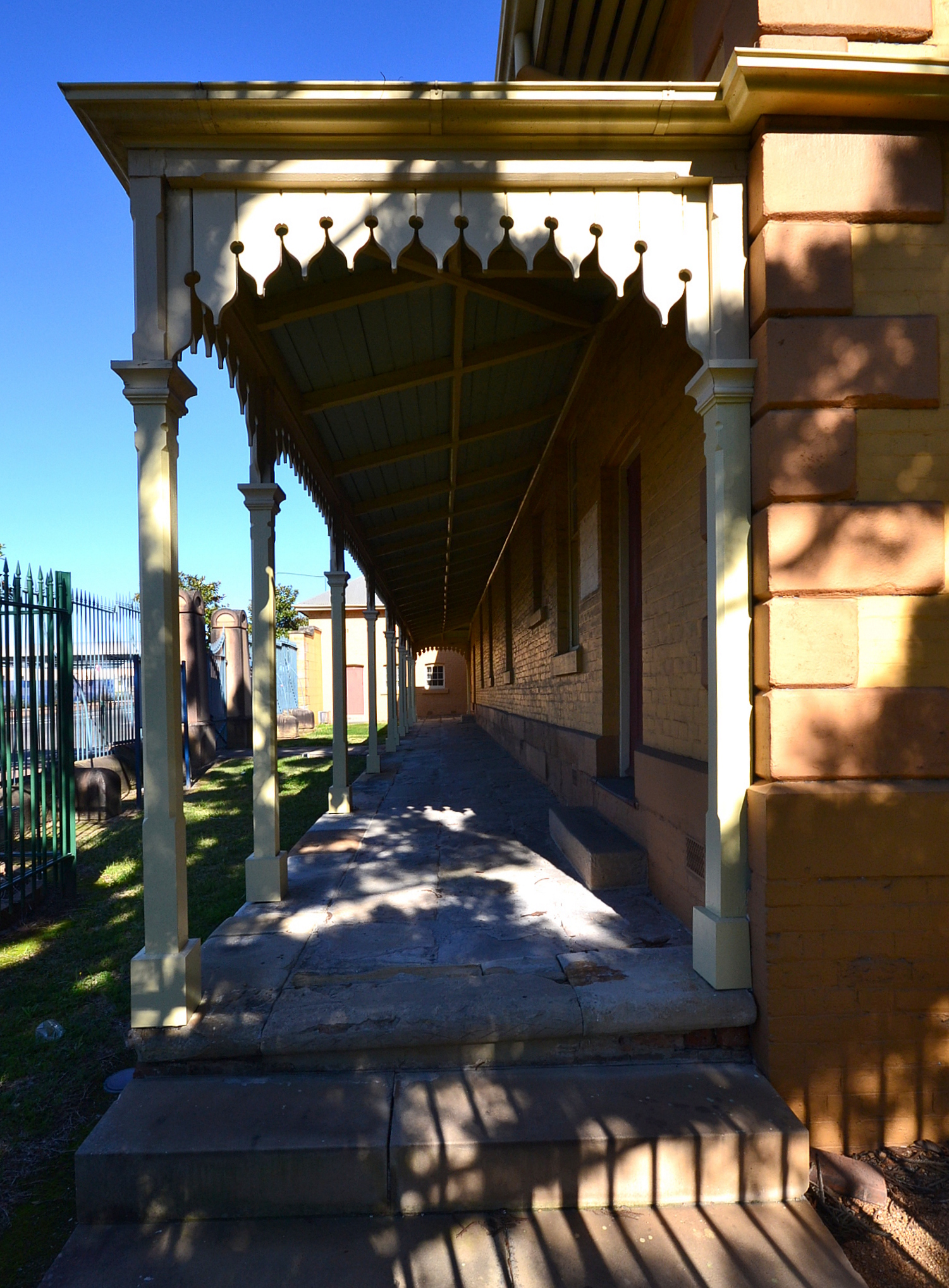 old court house, Liverpool, Sydney